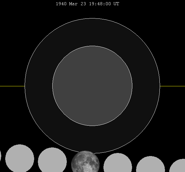 Lunar eclipse chart of moon's path through the earth's shadow. thumb